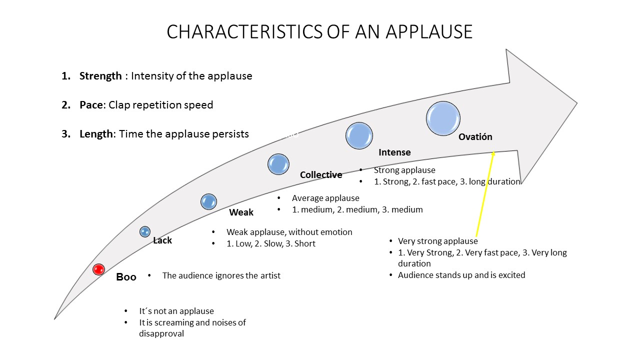 Describe the six possible categories of applause. Nelson´s Model